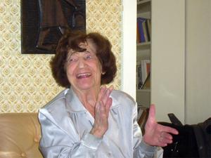 Portrait of Elsa Werner, * 15 February 1911 [sic]